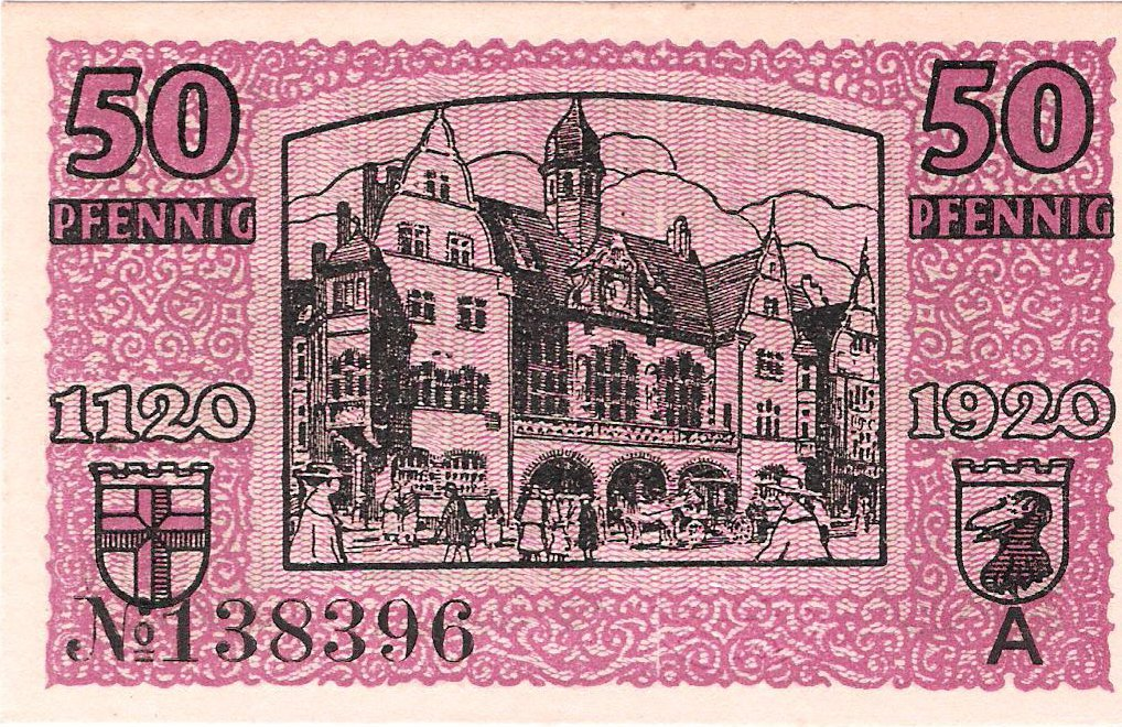 local emergency money, Freiburg 1920